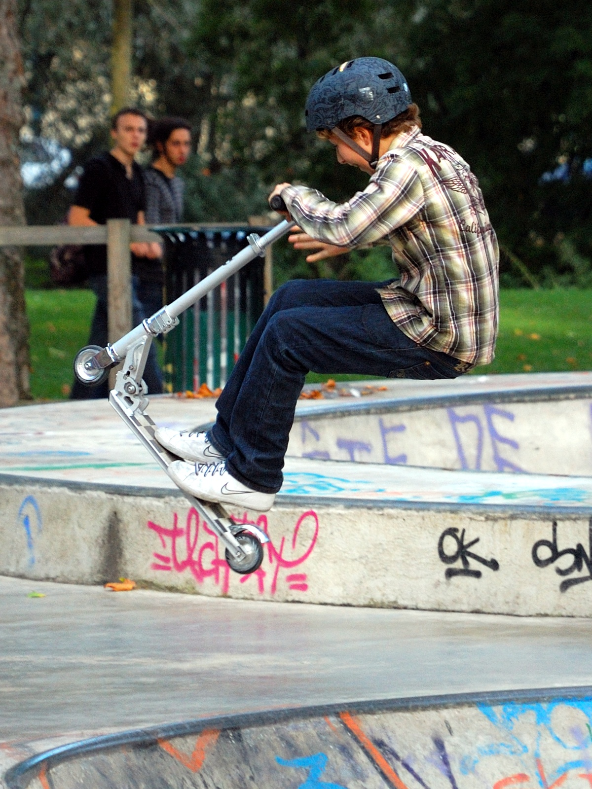 Bowl to air